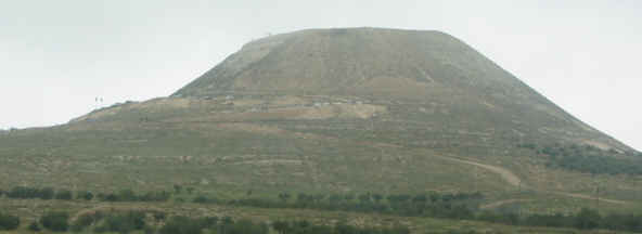 Photo of Herodium taken 20060416 from south.